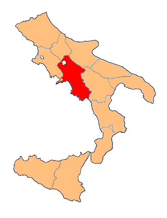 Locator map of the Giustizierato of Principato and Terra Beneventana, a department of the Kingdom of Sicily (Internal borders: period 1231-1273)